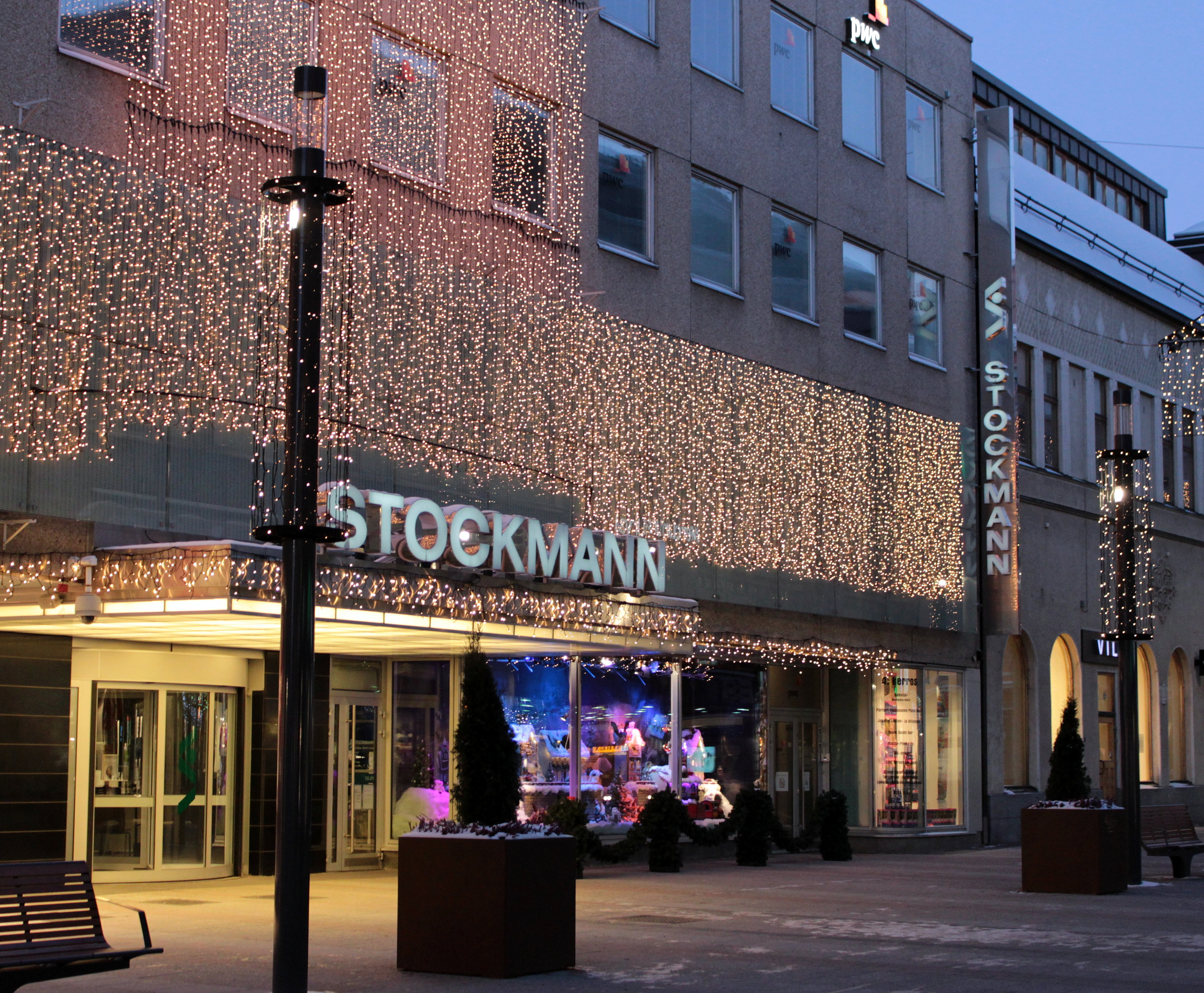 Rotuaari pedestrian zone with Christmas lights in December morning.